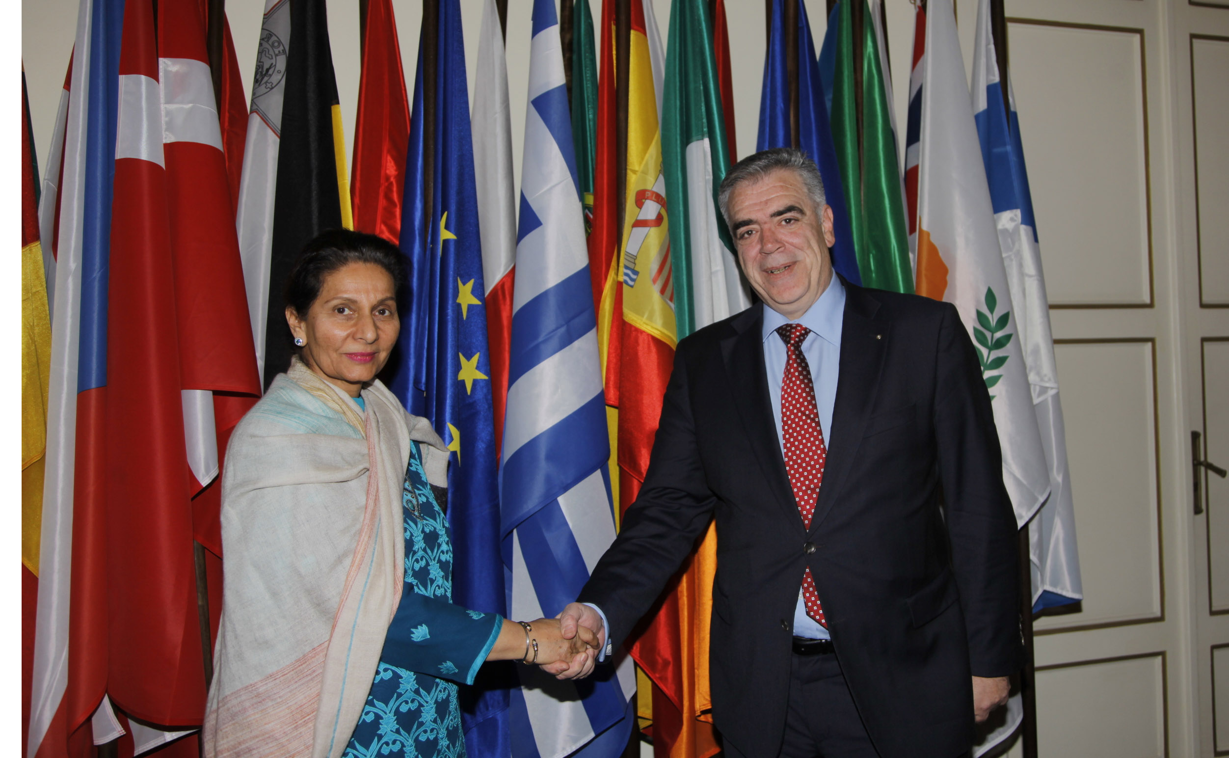 On Friday, February 1, Deputy Foreign Minister Dimitris Kourkoulas had a bilateral meeting with the Deputy Minister of External Affairs of India, Preneet Kaur.